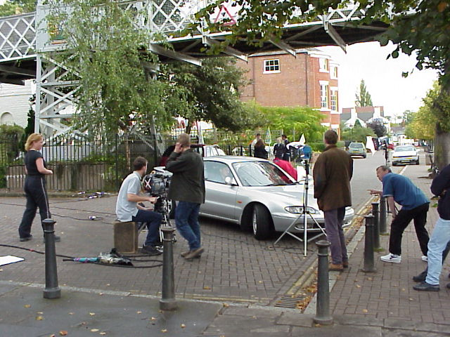 Hollyoaks being filmed on location on The Groves in Chester, 16 September 1999.